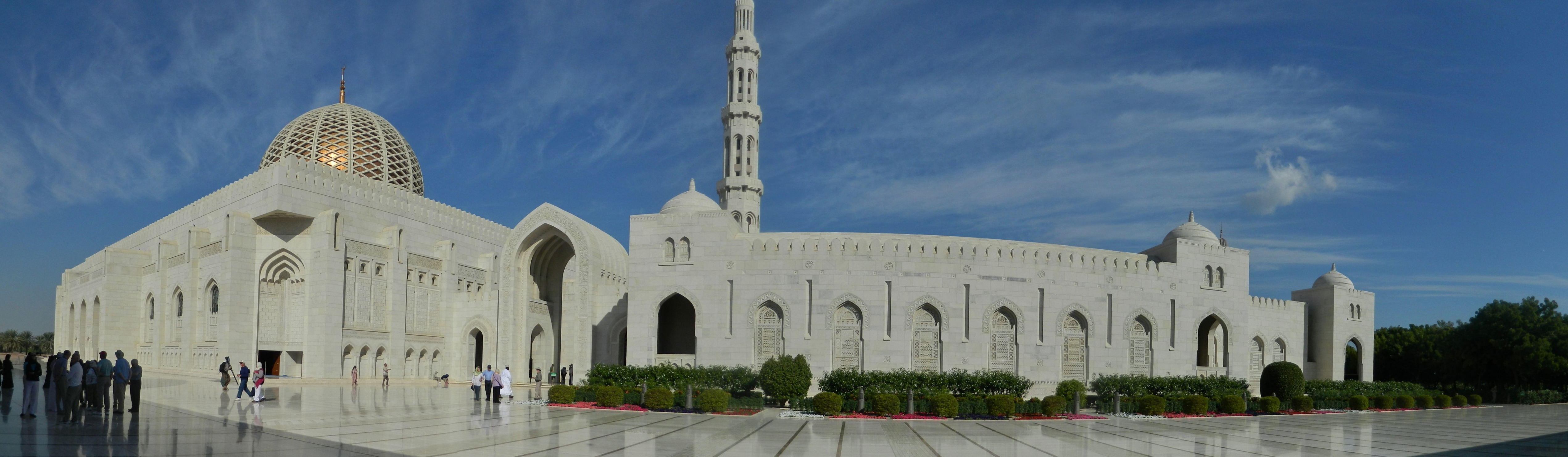 Sultan Qaboos Grand Mosque in Muscat, Oman